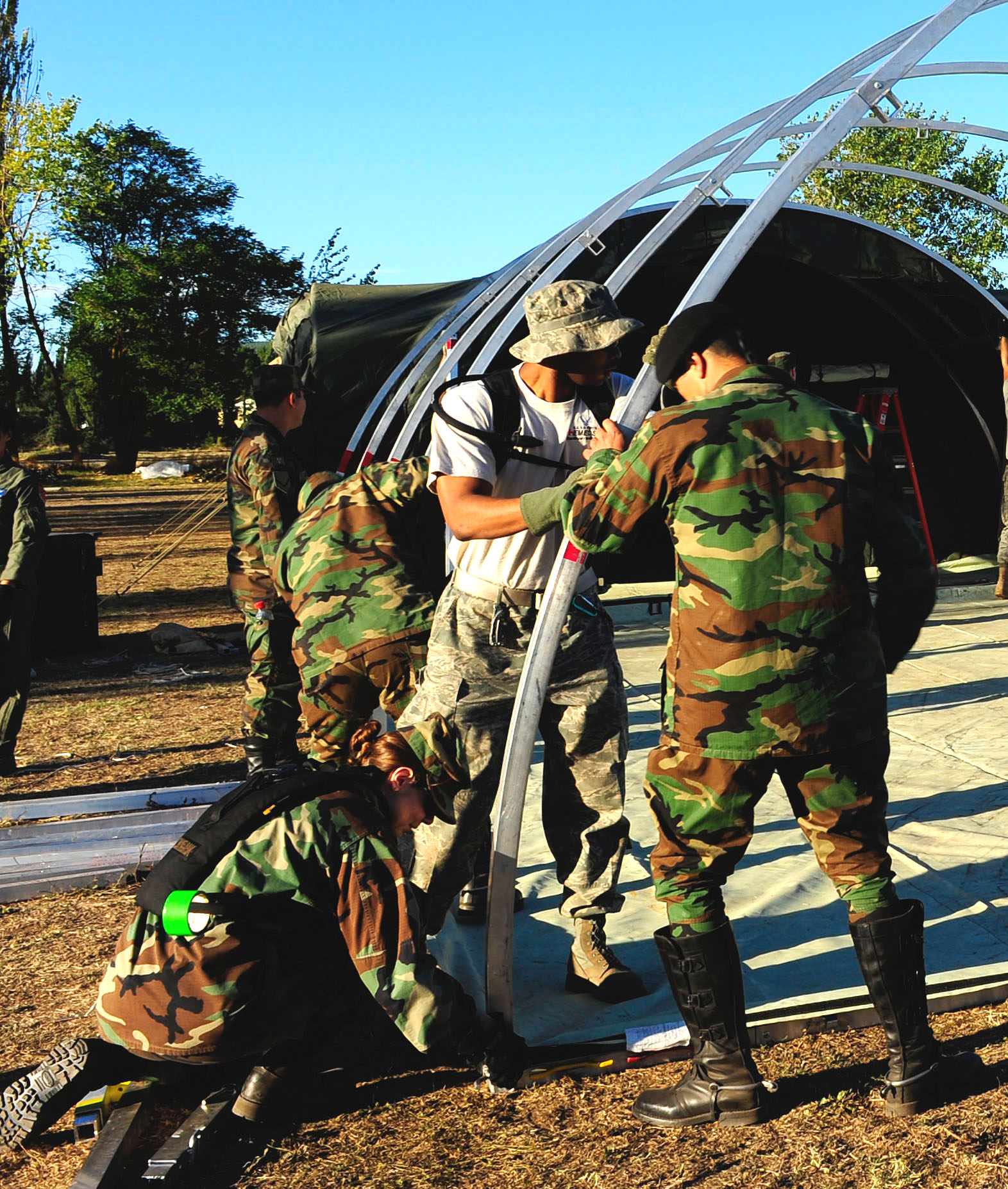 Chilean soldiers help airmen from a US Air Force expeditionary medical support team erect a hospital tent in Angol, Chile